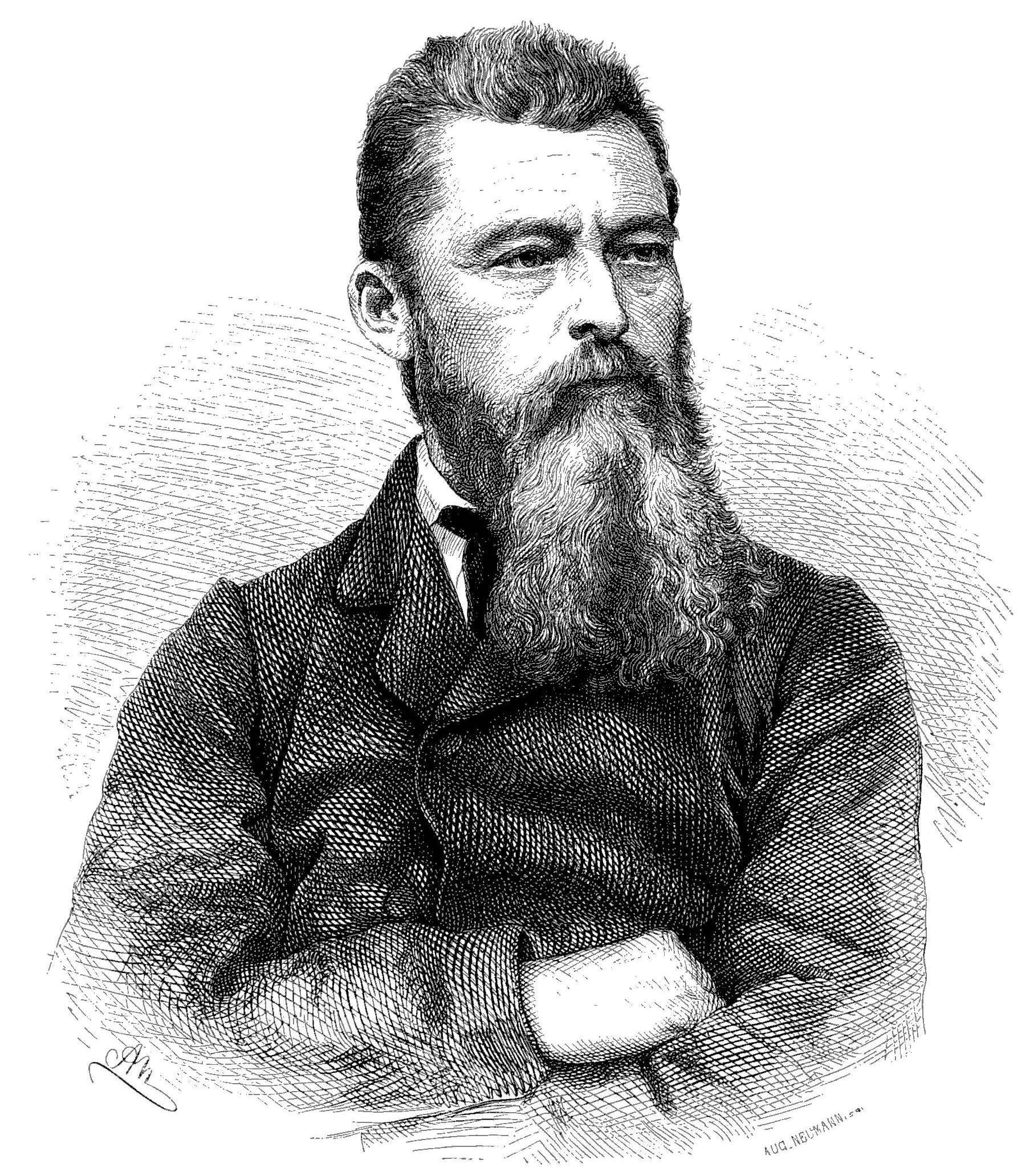 Portait engraving of Ludwig Feuerbach from Die Gartenlaube 1872 (1) p. 17